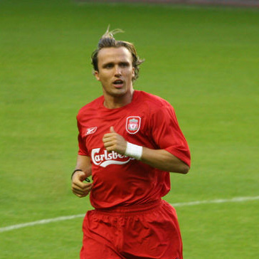 Liverpool footballer Boudewijn Zenden.